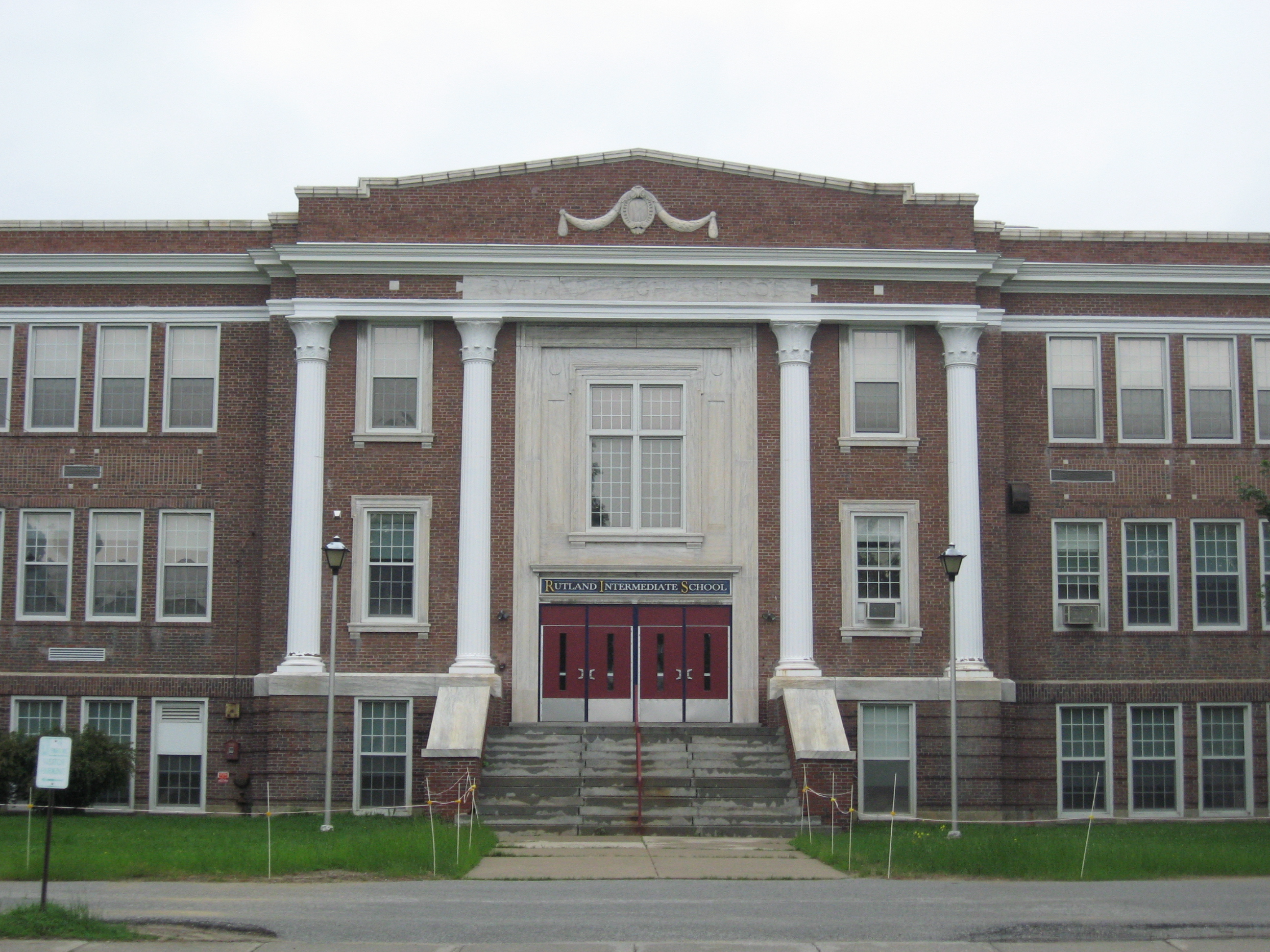 Rutland Intermediate School in Rutland, Vermont.